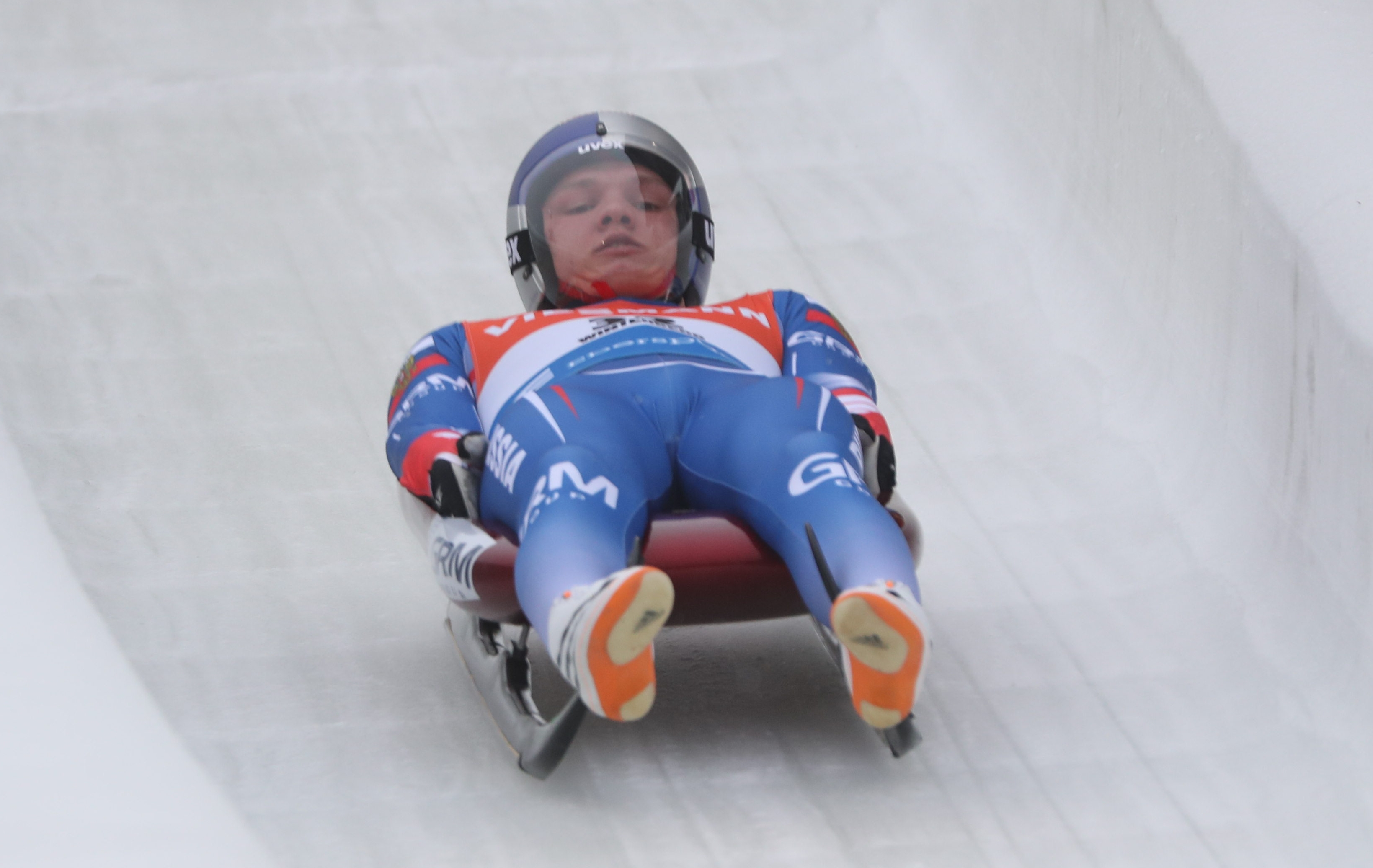 Luge World Cup Men in Winterberg